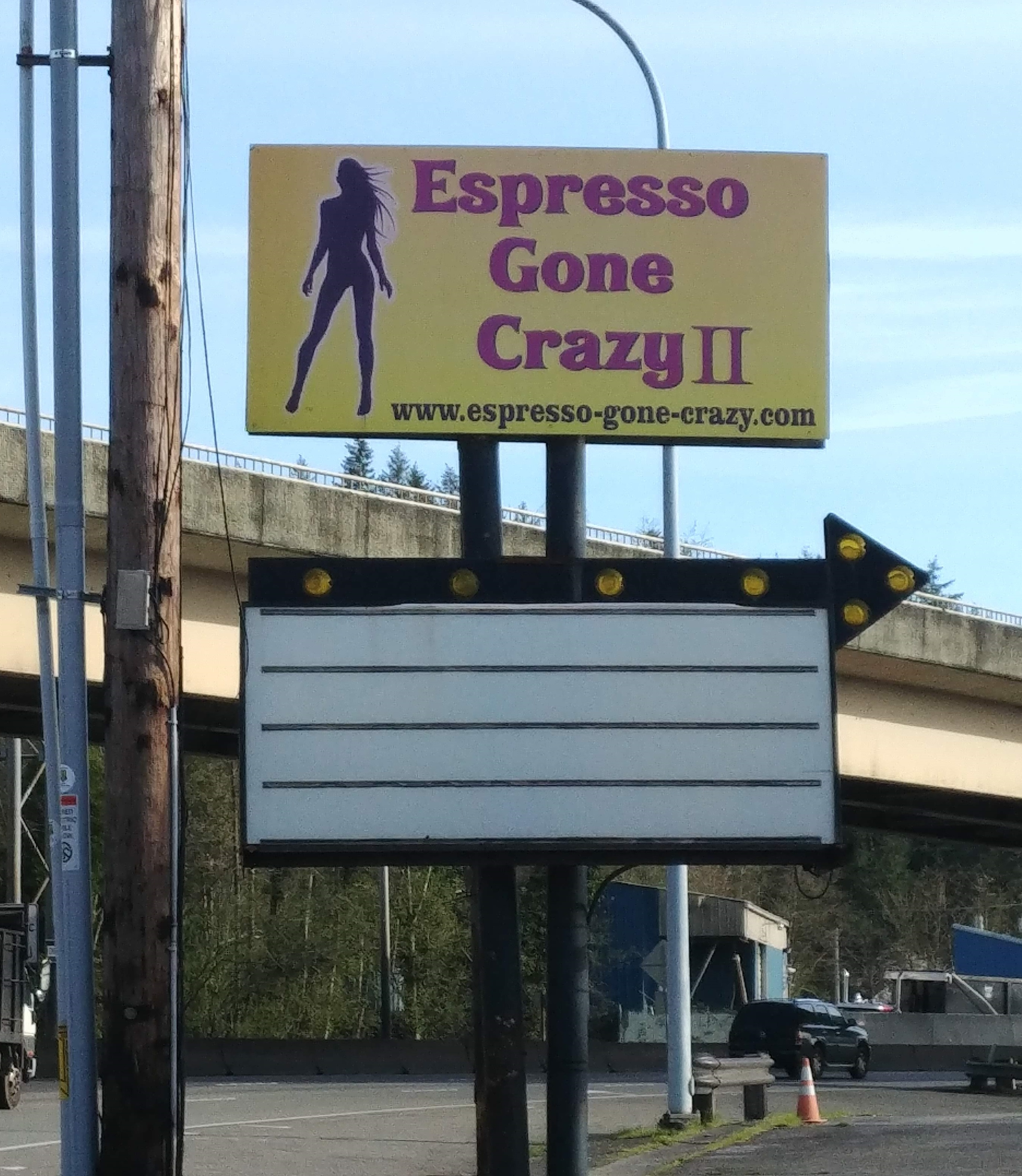 Roadside sign for "Espresso Gone Crazy" bikini barista stand on the side of Highway 16 at Gorst, Washington. There was no establishment at this location. Probably closed since 2015. The overpass behind the sign is Highway 3; it crosses Highway 16.